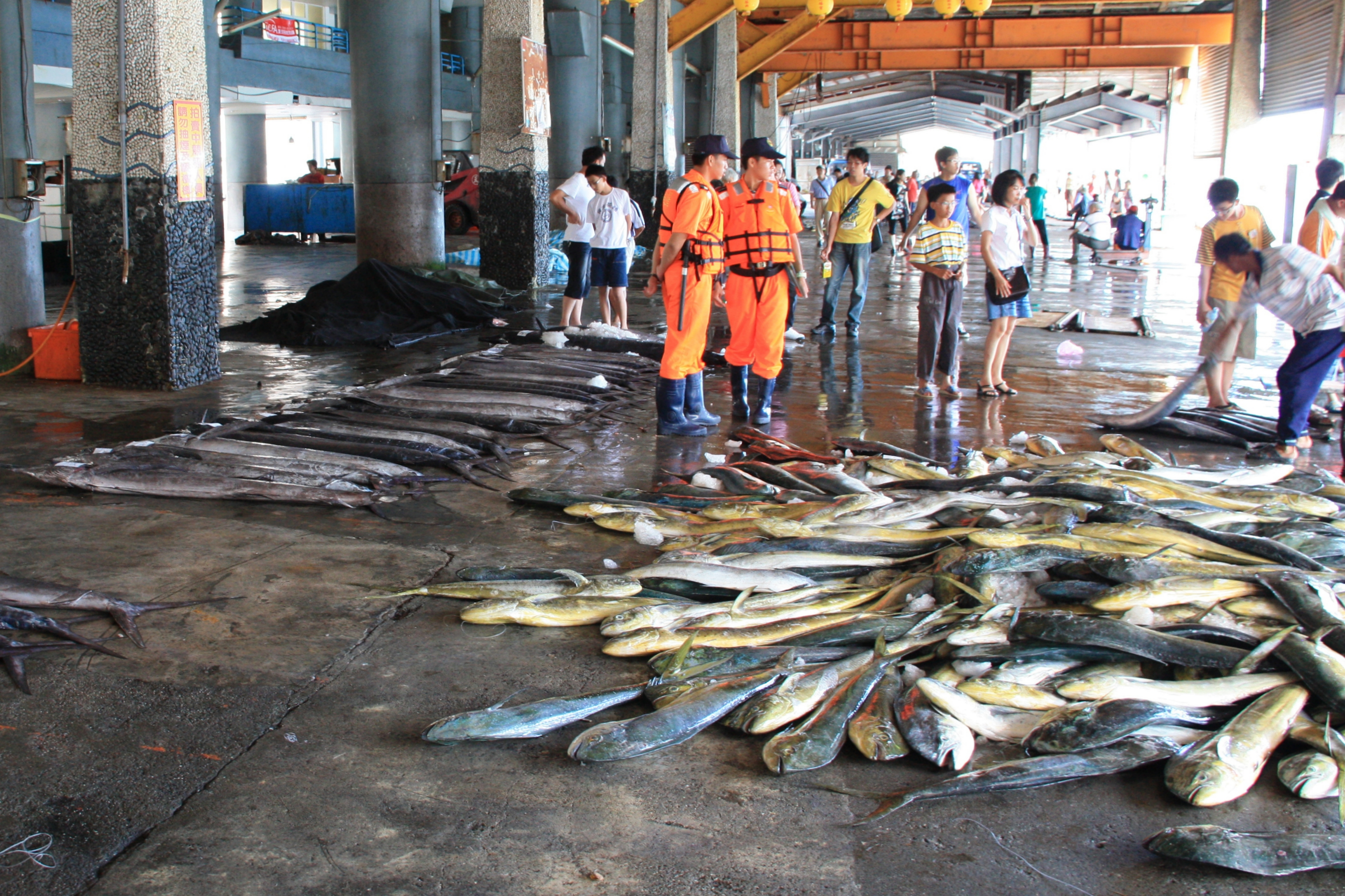 Taitung County Chenggong Chenggong Fishing Harbor Customs officers or coast guard? To be clarified!